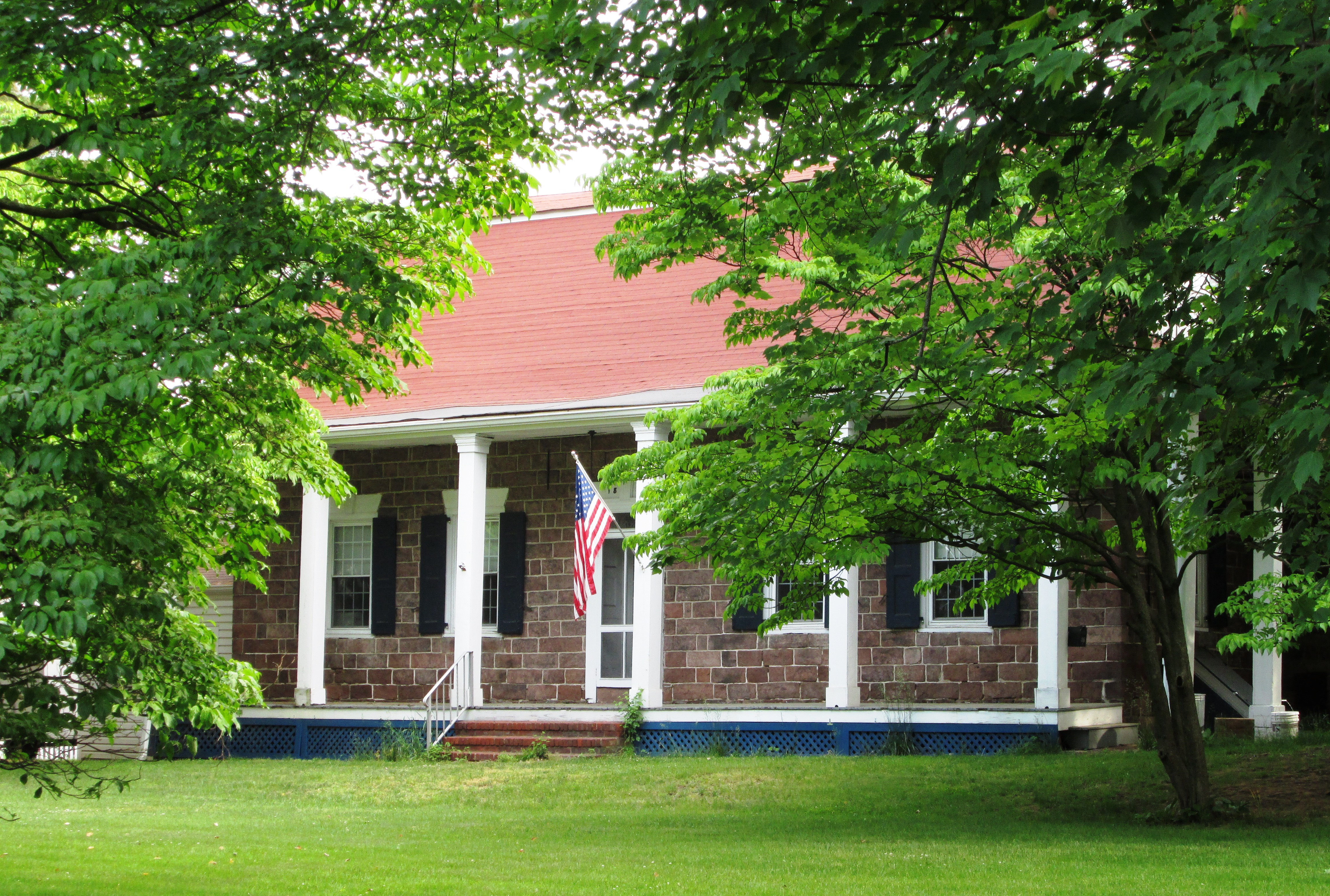 The Benjamin P. Westervelt House, located at 253 County Road in Cresskill, Bergen County, New Jersey, was the home of Benjamin Westervelt, a member of the local militia during the American Revolutionary War. The main wing of the Dutch Colonia style house was built in 1808, but the Westervelt family has continuously occupied the site since at least 1778. Historical marker at the site. The house, which has been used as a background in several films, was listed on New Jersey Register of Historic Places in 1980, and the National Register of Historic Places in 1983.